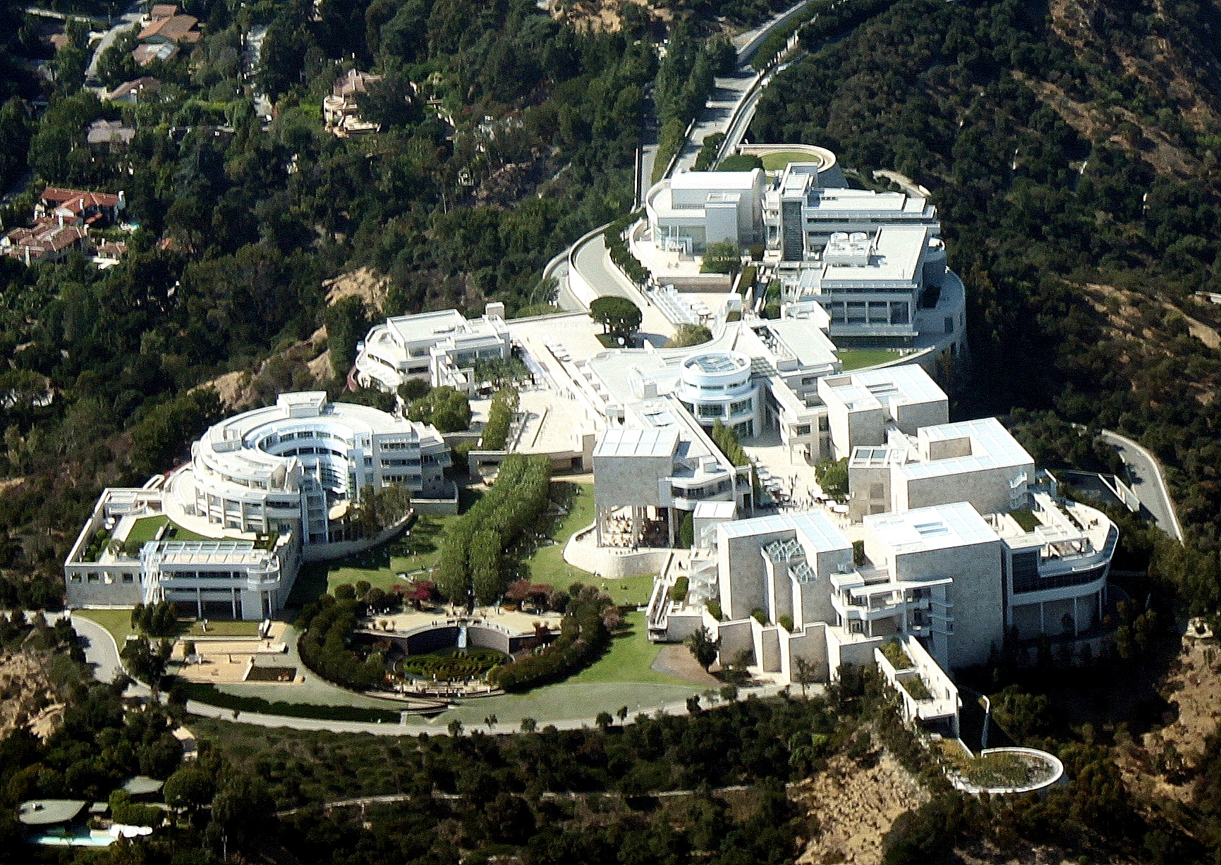 An aerial view of the Getty Center museum in Brentwood, Los Angeles, viewed from the south.